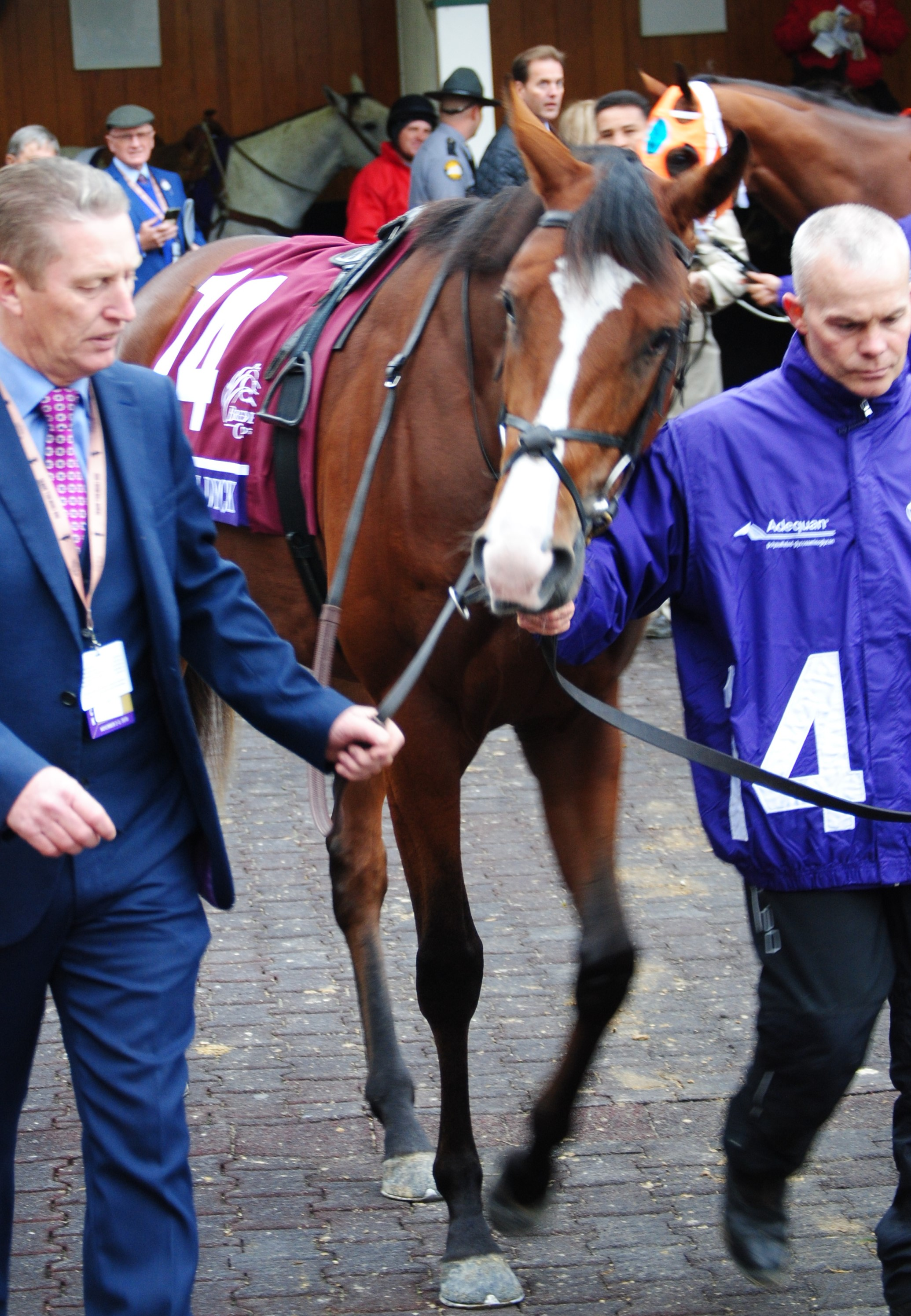 Anthony Van Dyck (horse)|Anthony Van Dyck in the walking ring for the 2018 Breeders' Cup Turf